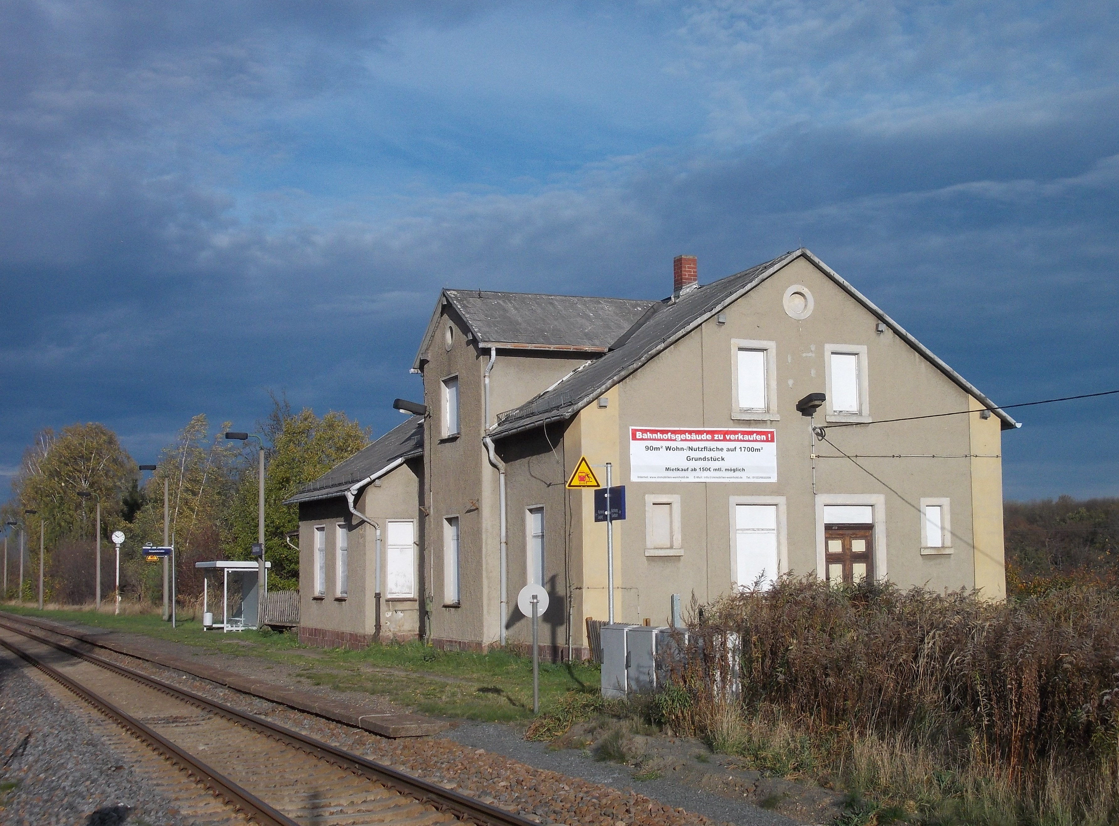 Tautenhain train station (Frohburg, Leipzig district, Saxony)